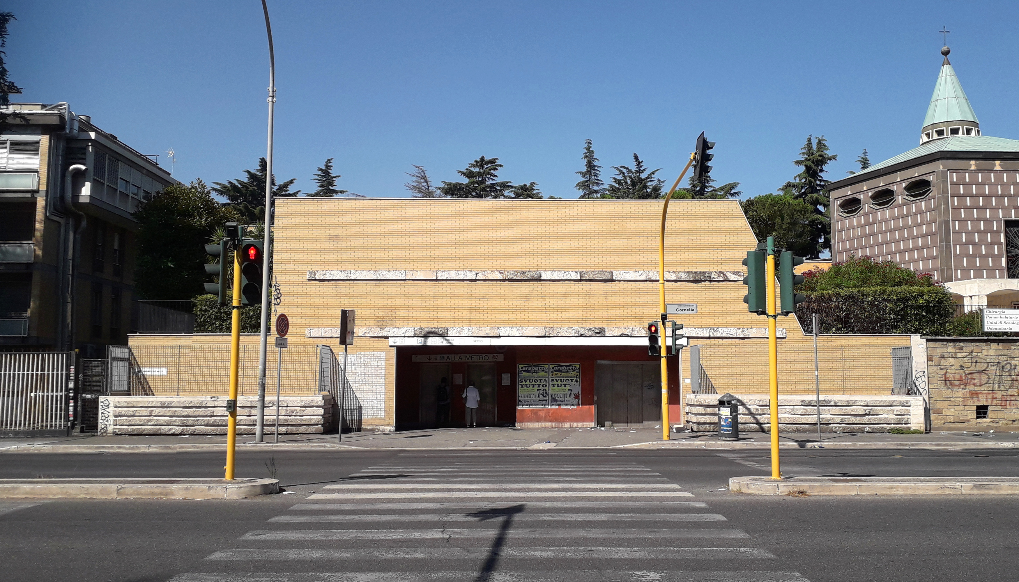 Main entrance of Rome Metro A station Cornelia